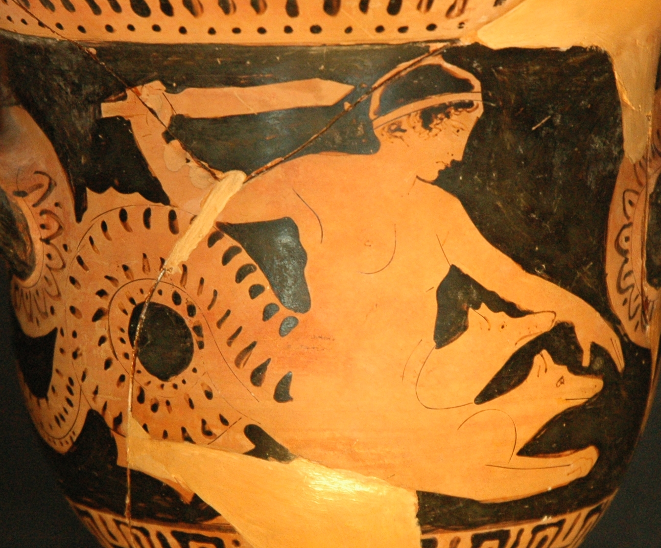 Scylla. Detail from side A from a Boeotian red-figure bell-crater, 450–425 BC.